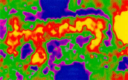 Geomagnetic image of Great Bear Mound, an Effigy Mound at Effigy Mounds National Monument, Iowa, USA